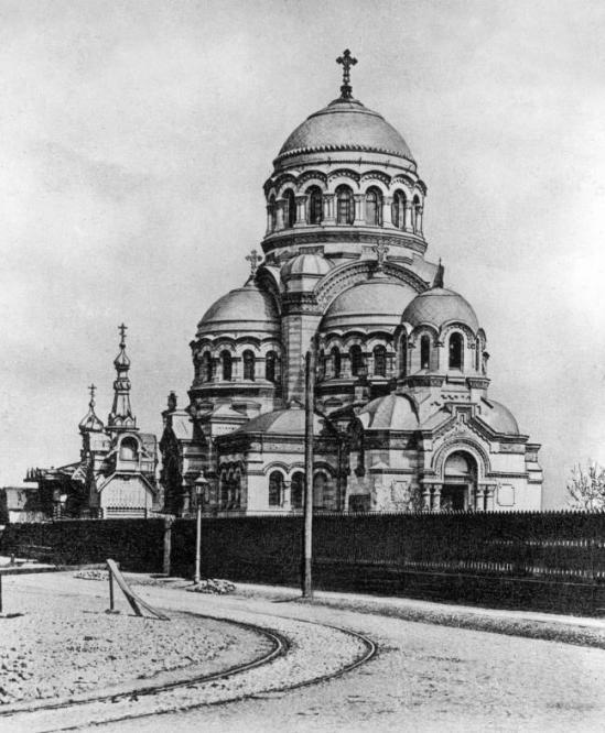 Church of Our Lady the Merciful before 1917